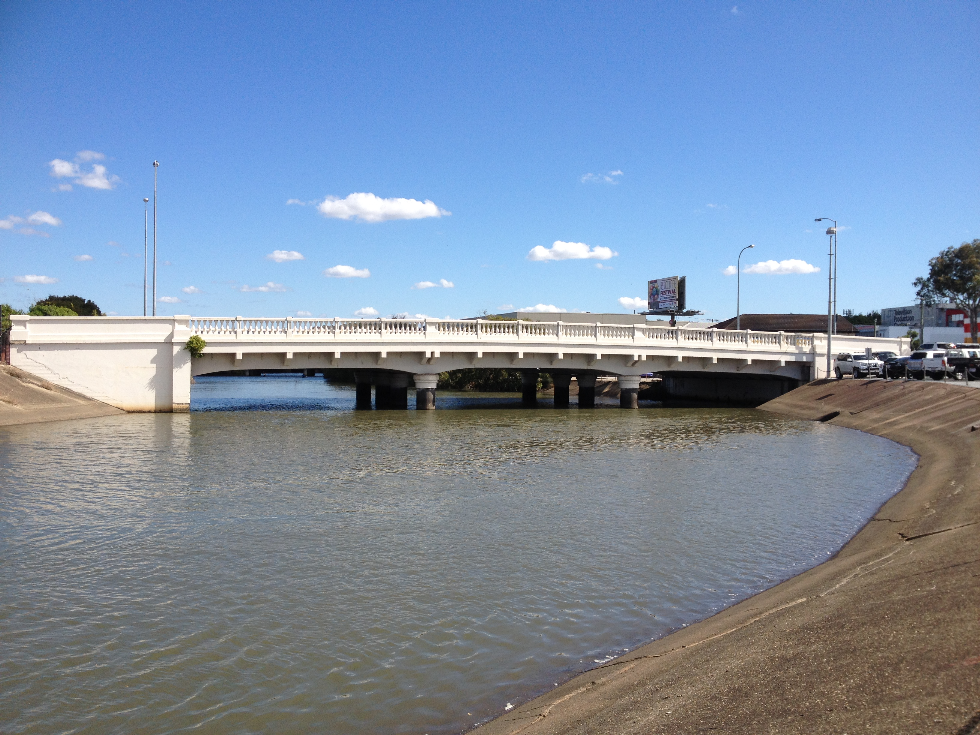 Abbotsford Road Bridge across Breakfast Creek to connect Sandgate Rd with Abbotsford Rd, designed and built by Walter Taylor for the Brisbane City Council. It opened in 1928.